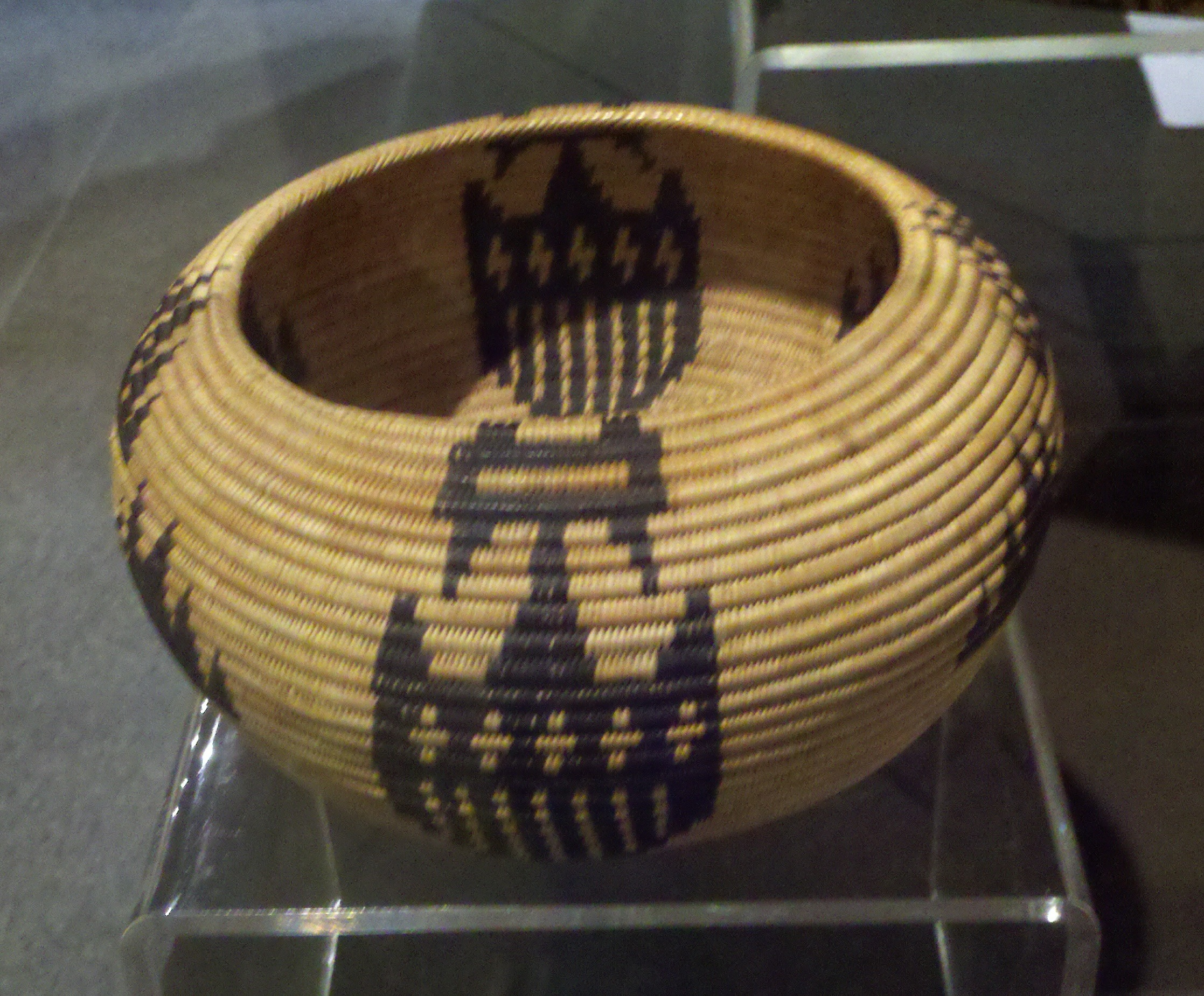 A basket made by Native American basketmaker Nellie Charlie in 1924, on display at the Yosemite Museum Design includes versions of the shield of the United States.